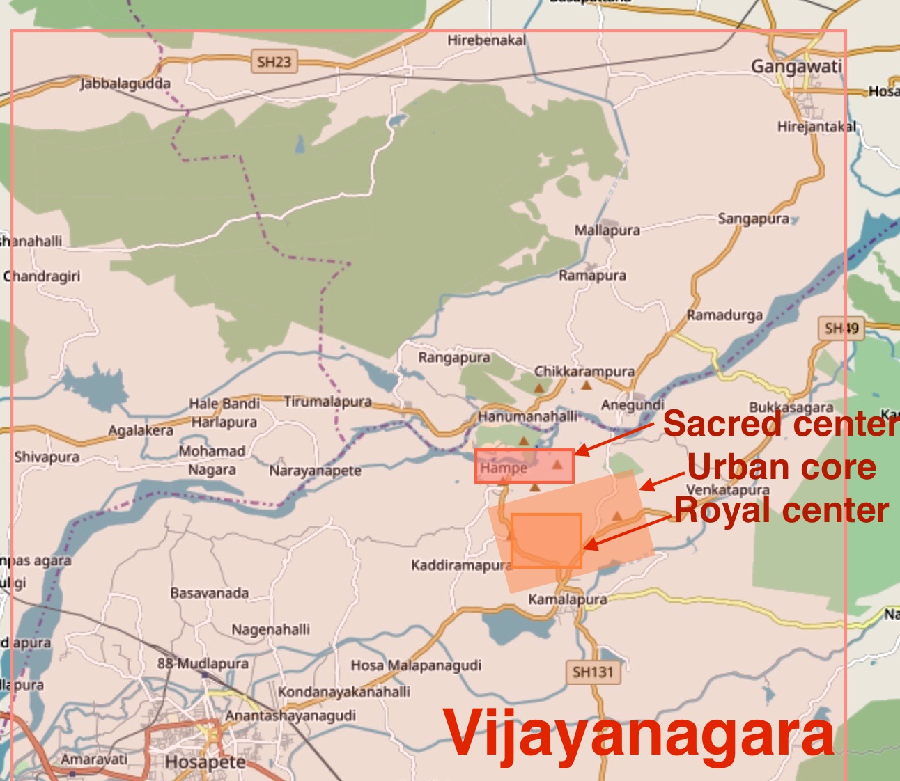 This is a derivative work on OpenStreet map available under Creative Commons 2.0 license, as downloaded on October 13 2017. Authors of the raw map: OpenStreetMap contributors Note: This map may be incomplete, and may contain errors. Don't rely solely on it for navigation or scholarship. The markings and other information are approximate. The image shows the Hampi sacred center, the urban core and royal center, as well as the spread of Vijayanagara metropolis suburbs around the urban core. Archaeological surveys and excavations have located Vijayanagara ruins from Gangawati in northeast to Hosapete in southwest. For example, the Anantashayana Gudi is found in Hosapete. Many residential areas were closer to the urban core. According to scholars, Vijayanagara was the second largest city in the world, after Beijing, in early 16th century. The city was destroyed in 1565 CE and most of it remained in ruins since then.